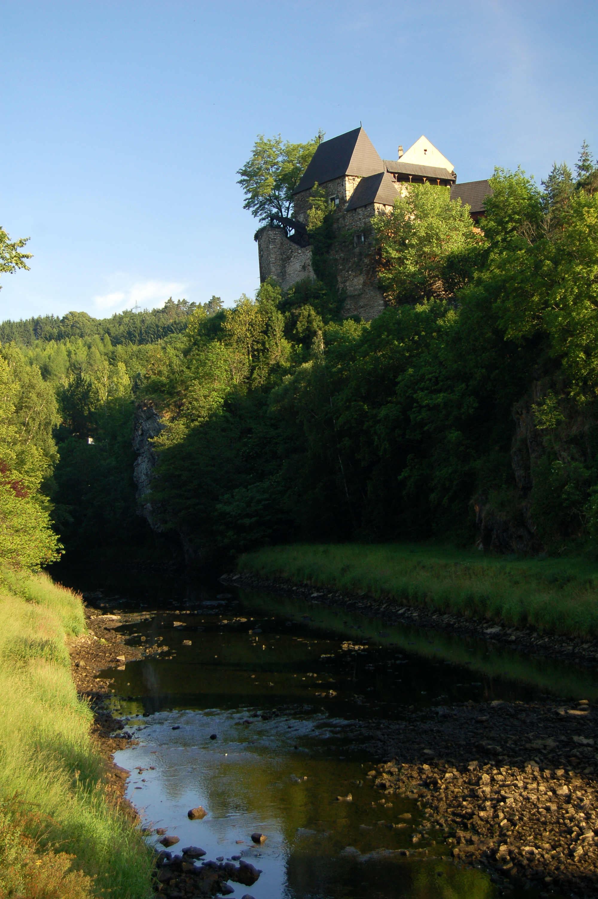 Castle Krumau in Krumau am Kamp, Lower Austria, on a rock over river Kamp.